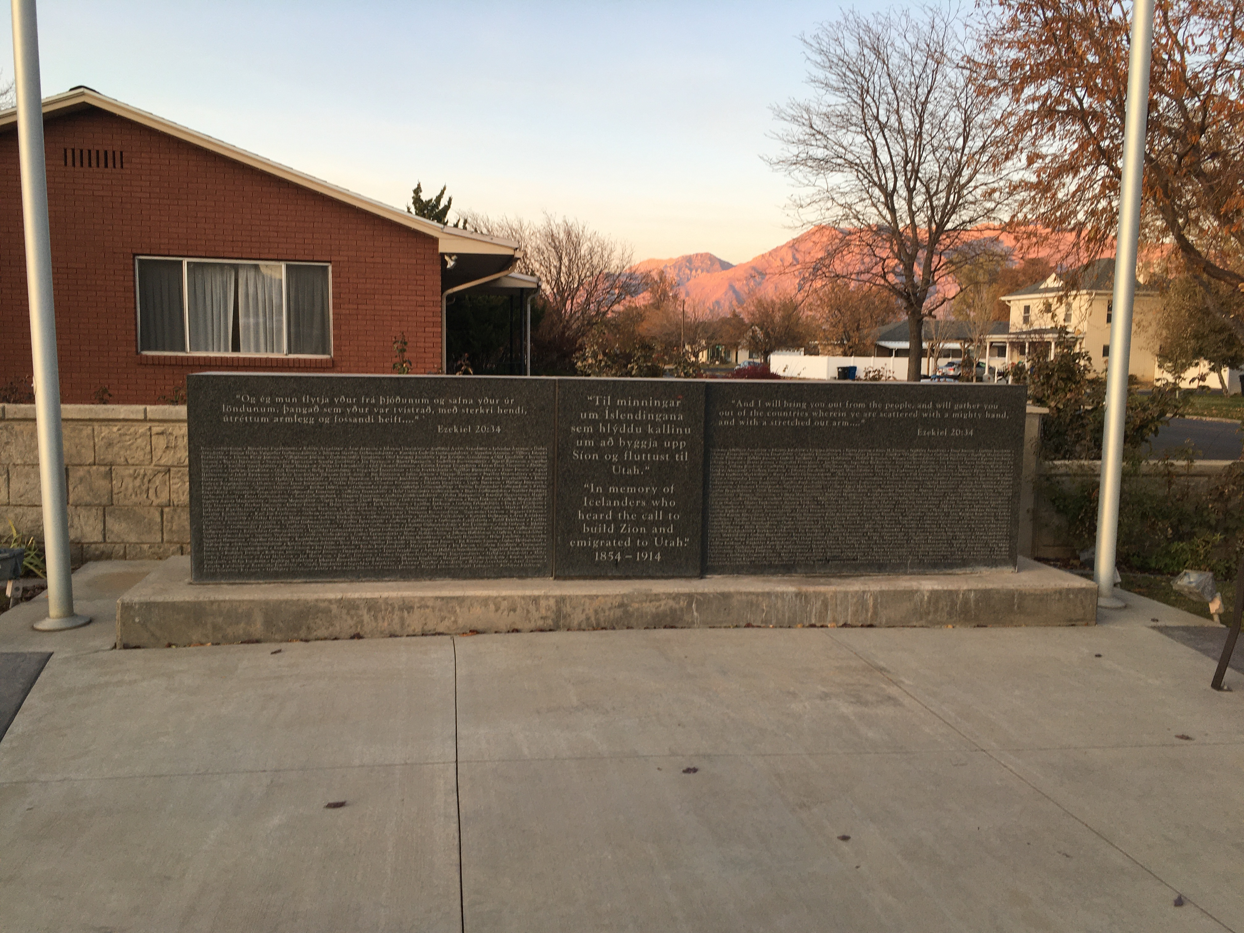 The wall with the 410 names of the Icelandic settlers who came to Spanish Fork through 1914